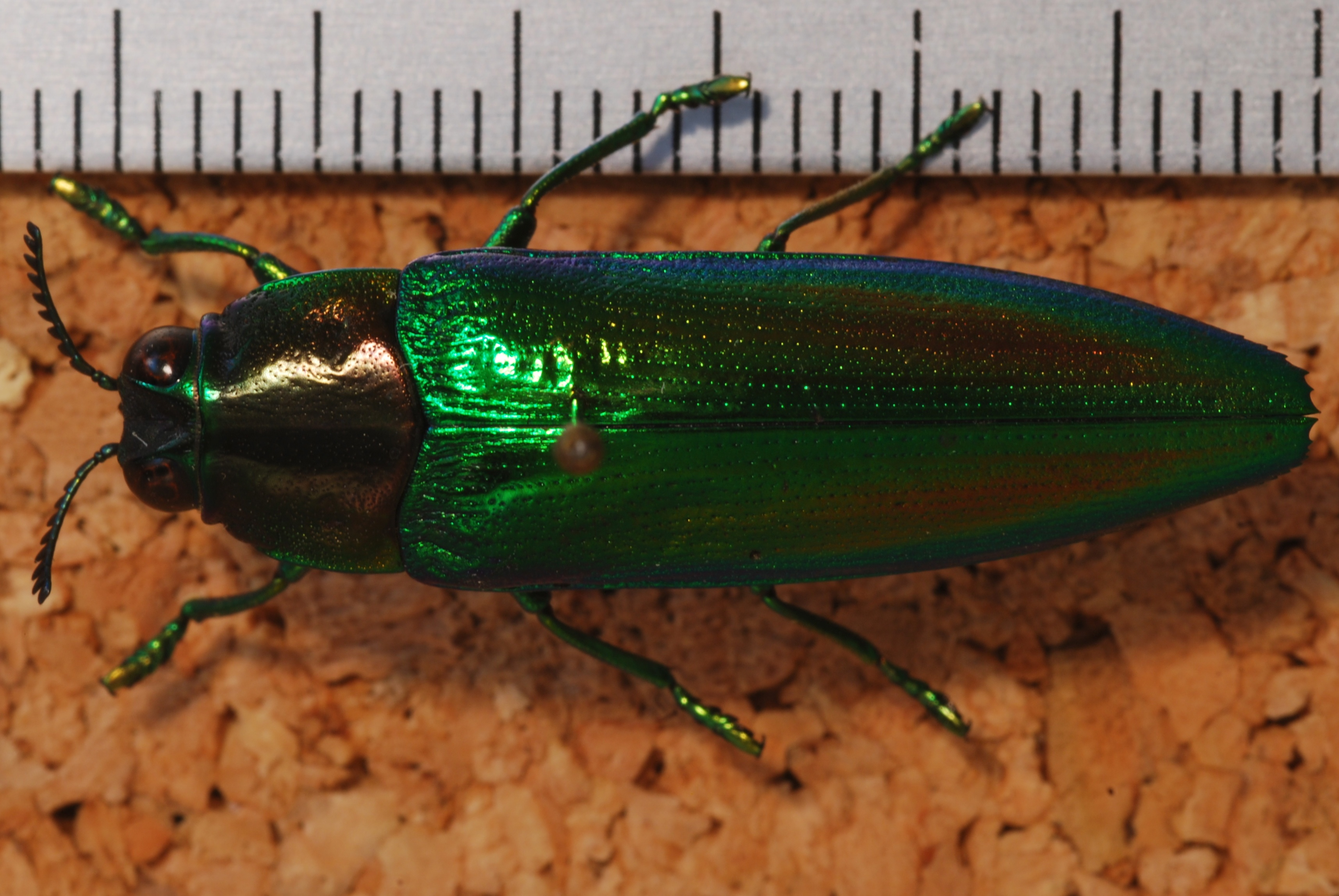 Limbe, CAMEROON